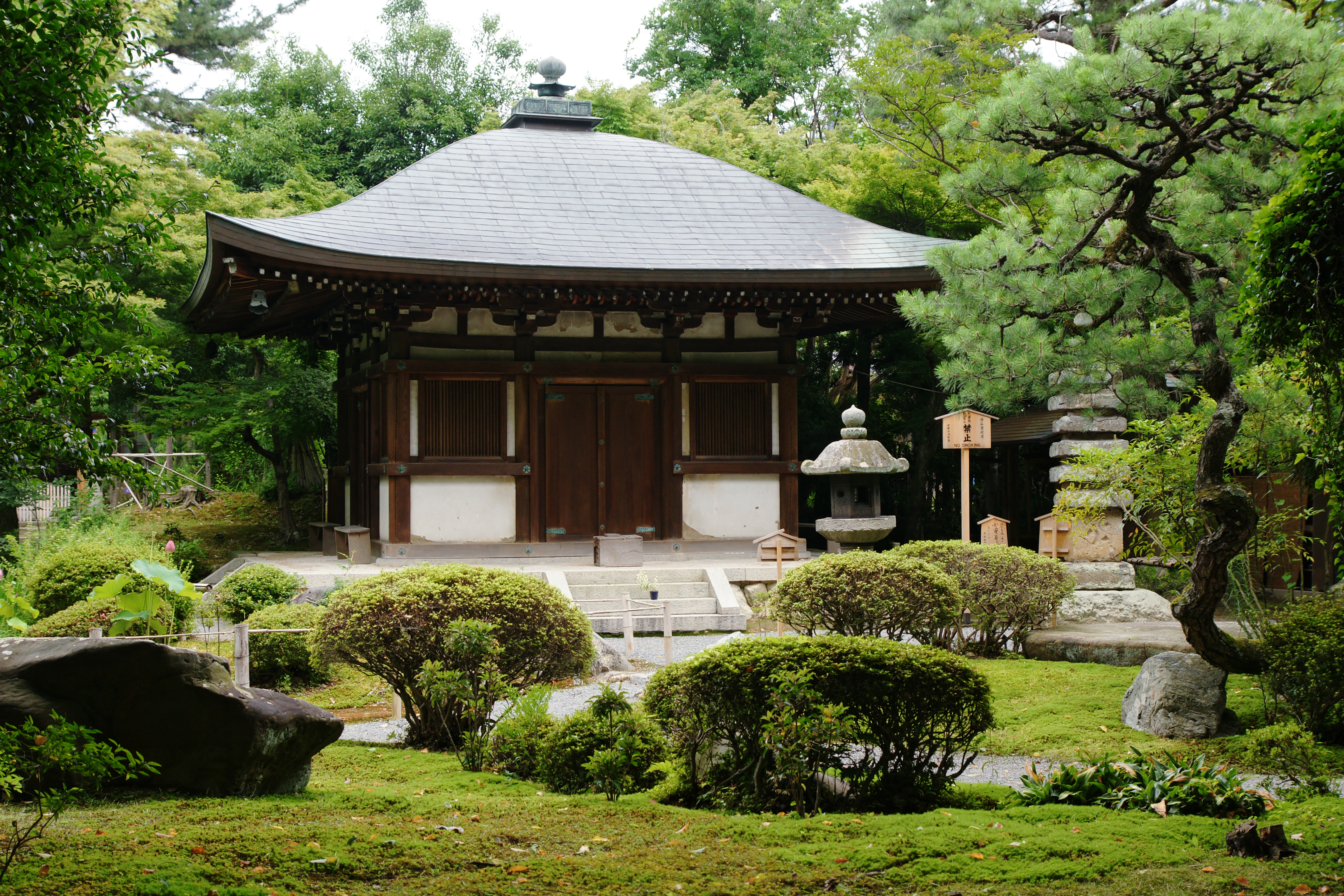 Hakusasonnsou in Kyoto, Kyoto prefecture, Japan